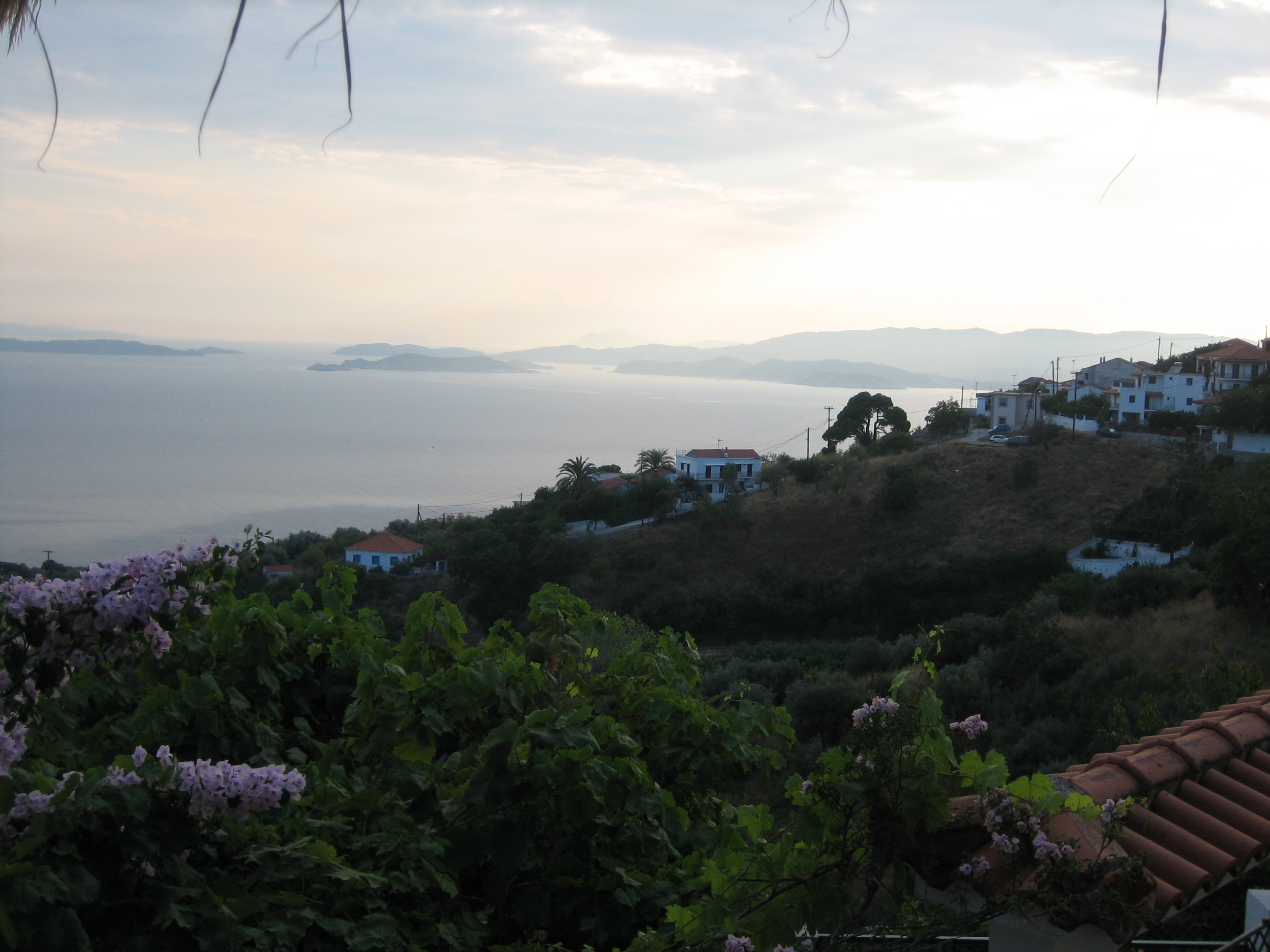 Photograph of greek sporades islands from skopelos island. We can see Skiatos and surrounding islands.